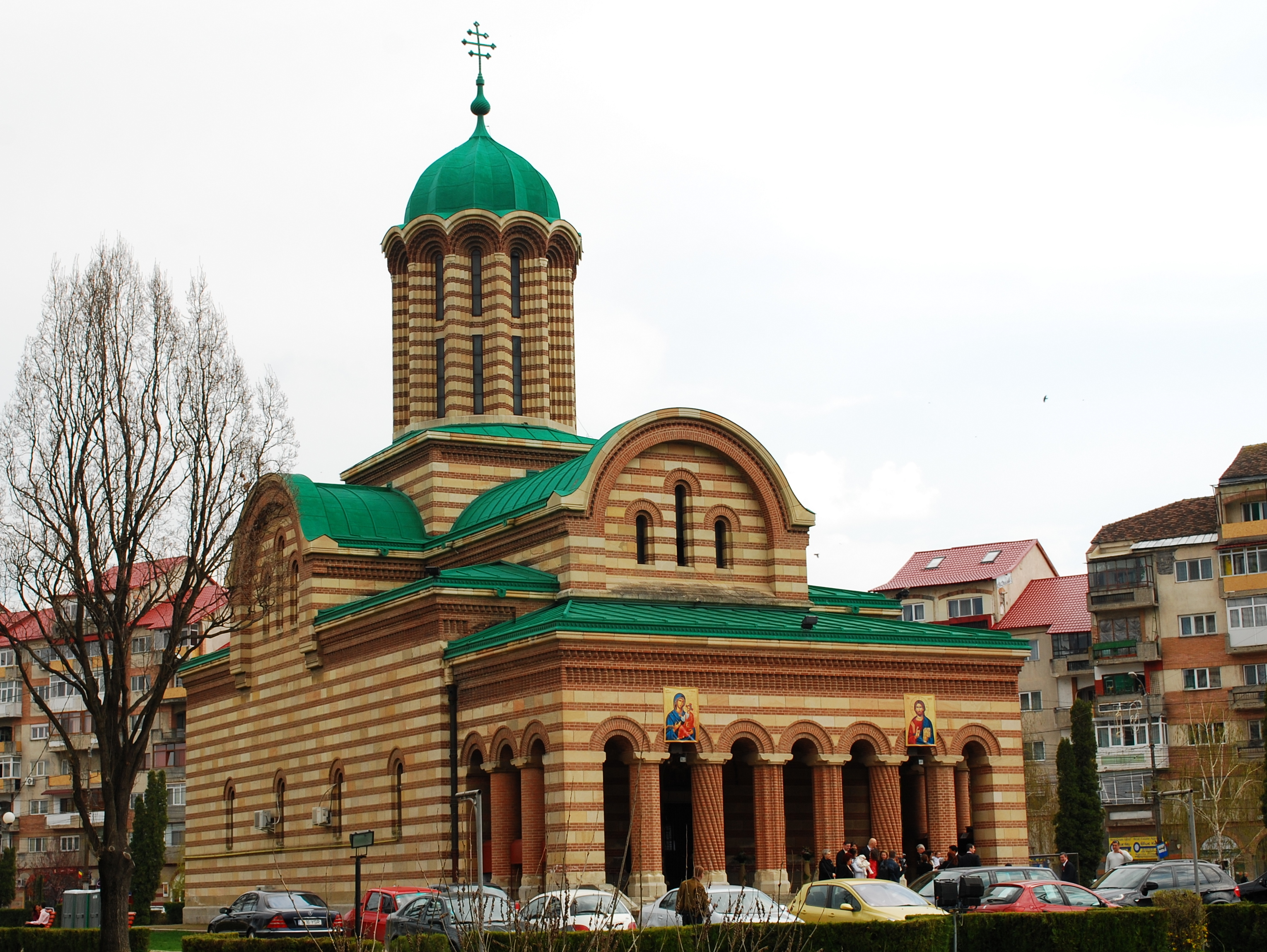 The metropolitan church in Târgovişte, Romania